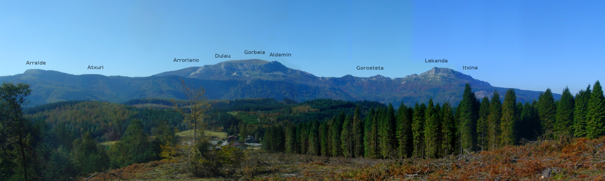 Gorbeia mountain range (Biscay and Araba, Basque Country, Spain)